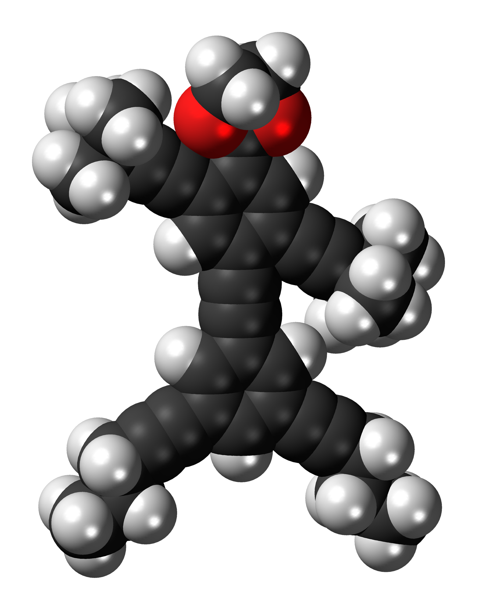 Space-filling model of the nanoputian molecule, also known as nanokid, an synthetic compound whose molecules are human-shaped. Colour code: Carbon, C: black Hydrogen, H: white Oxygen, O: red